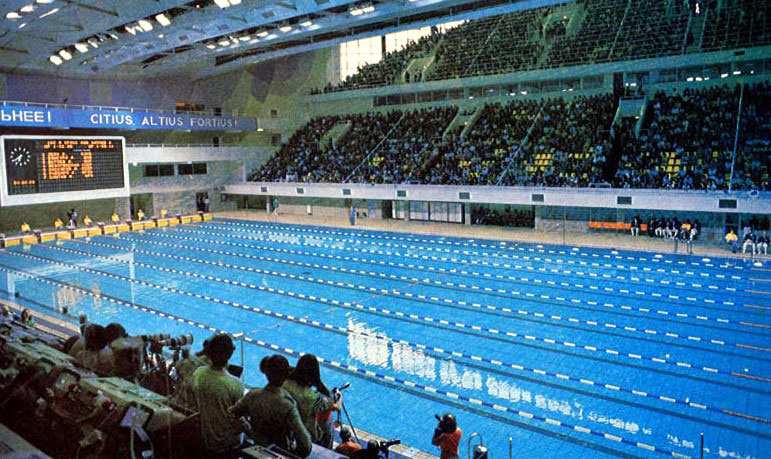 Olympic Pool during Moscow Olympics 1980